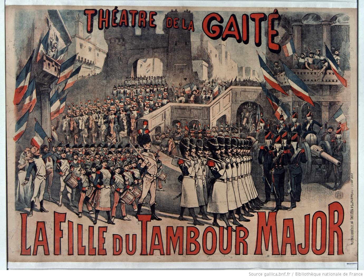 Poster for early production of La fille du tambour-major